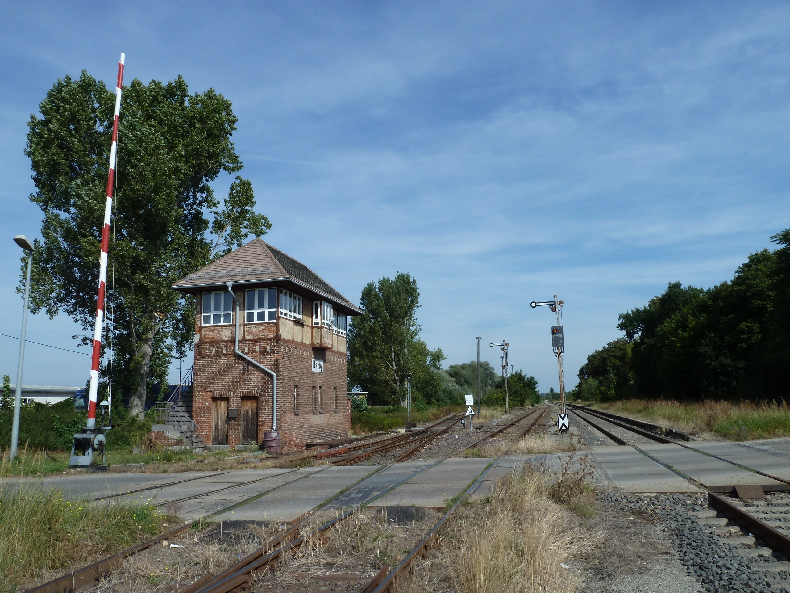 Barby train station, south west signal tower